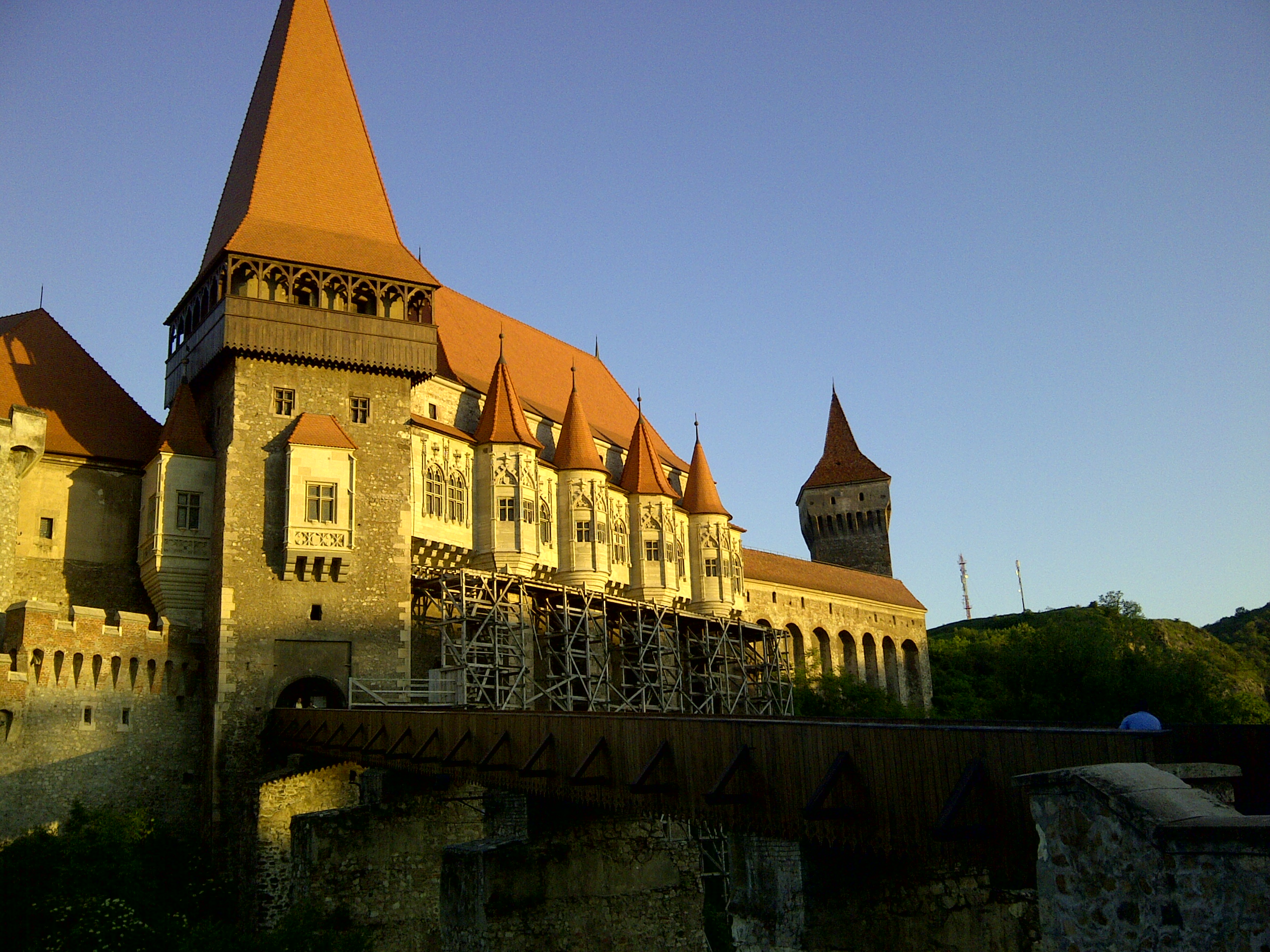 Castelul Corvinilor(02.06.2012)